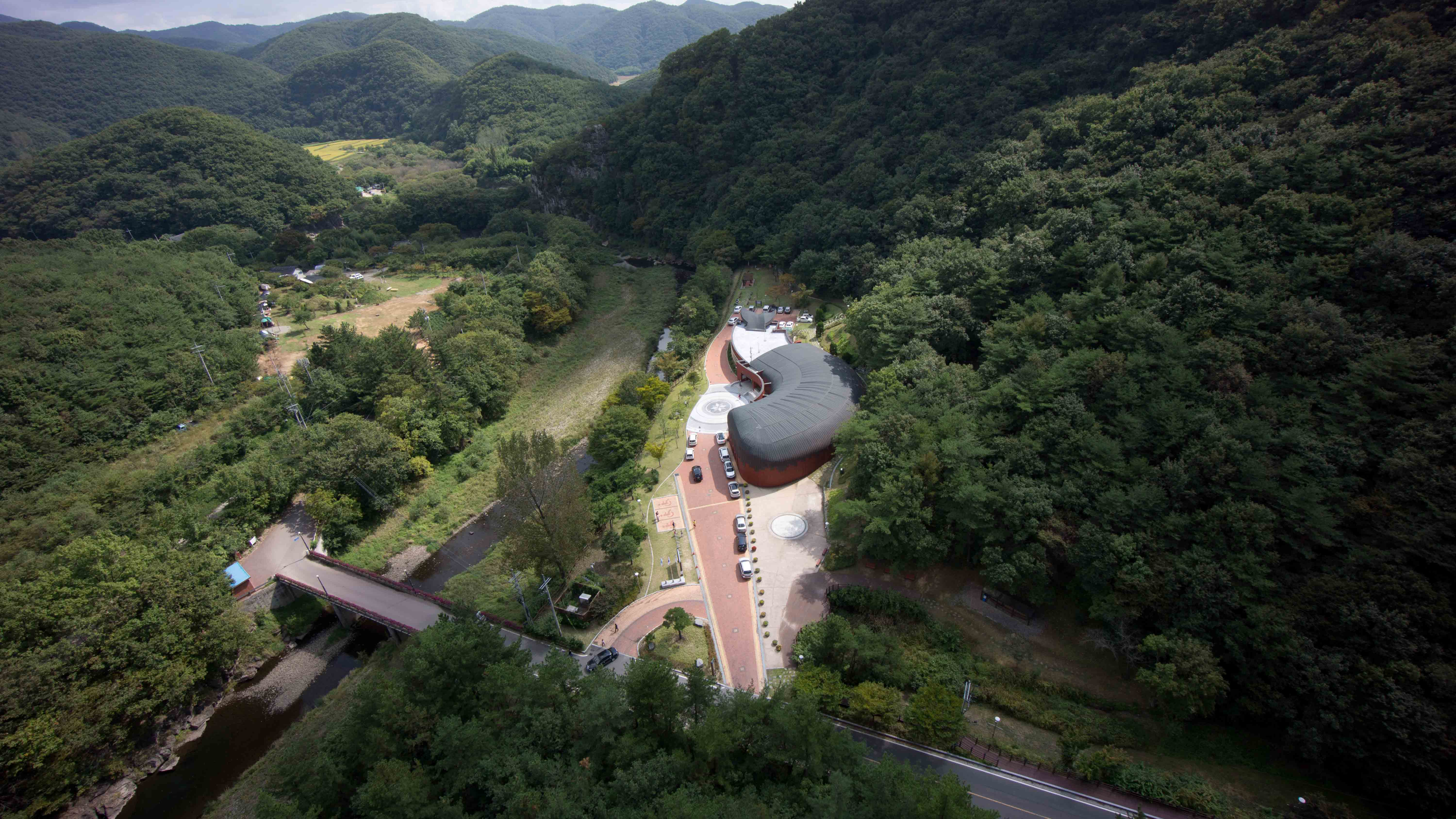 museum